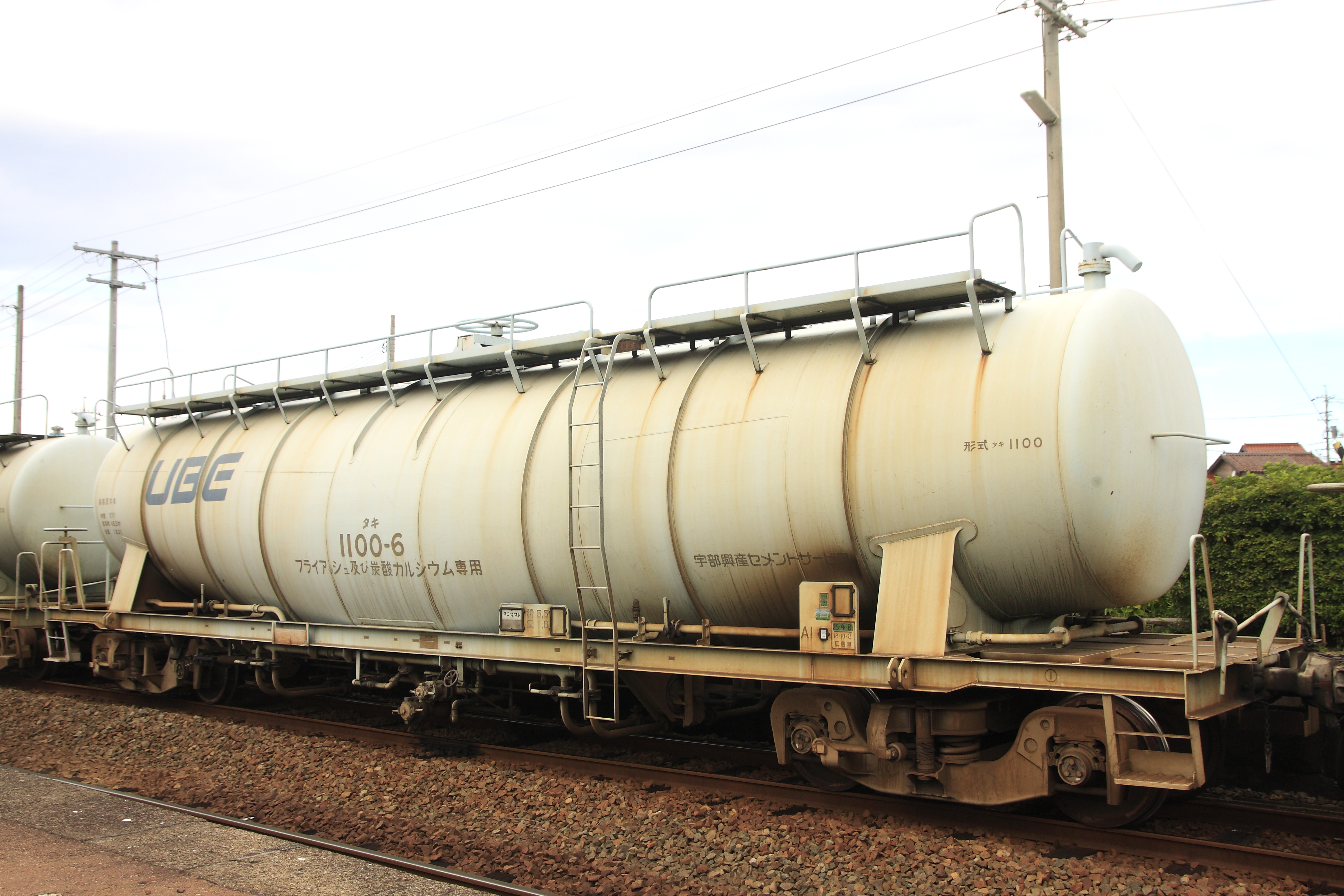 JR Freight Taki 1100-6 tanker at Iwami-Tsuda Station